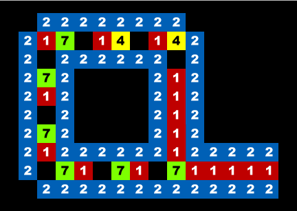 Initial status of Langton's loops (a paticular speicies of artificial life)